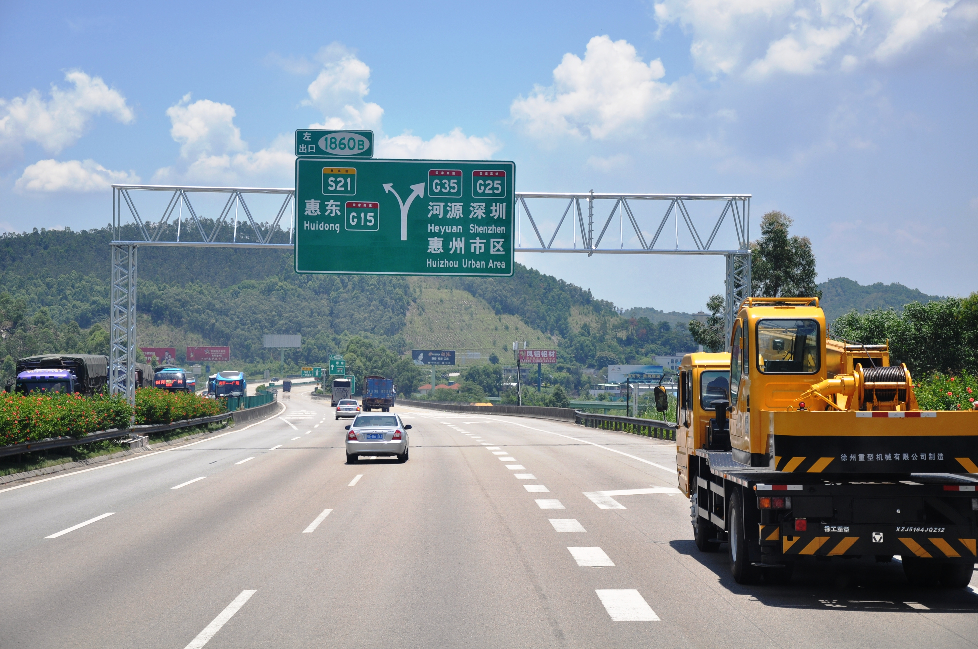 The New Sign In Xiaojinkou Interchange In Guanghui Expwy